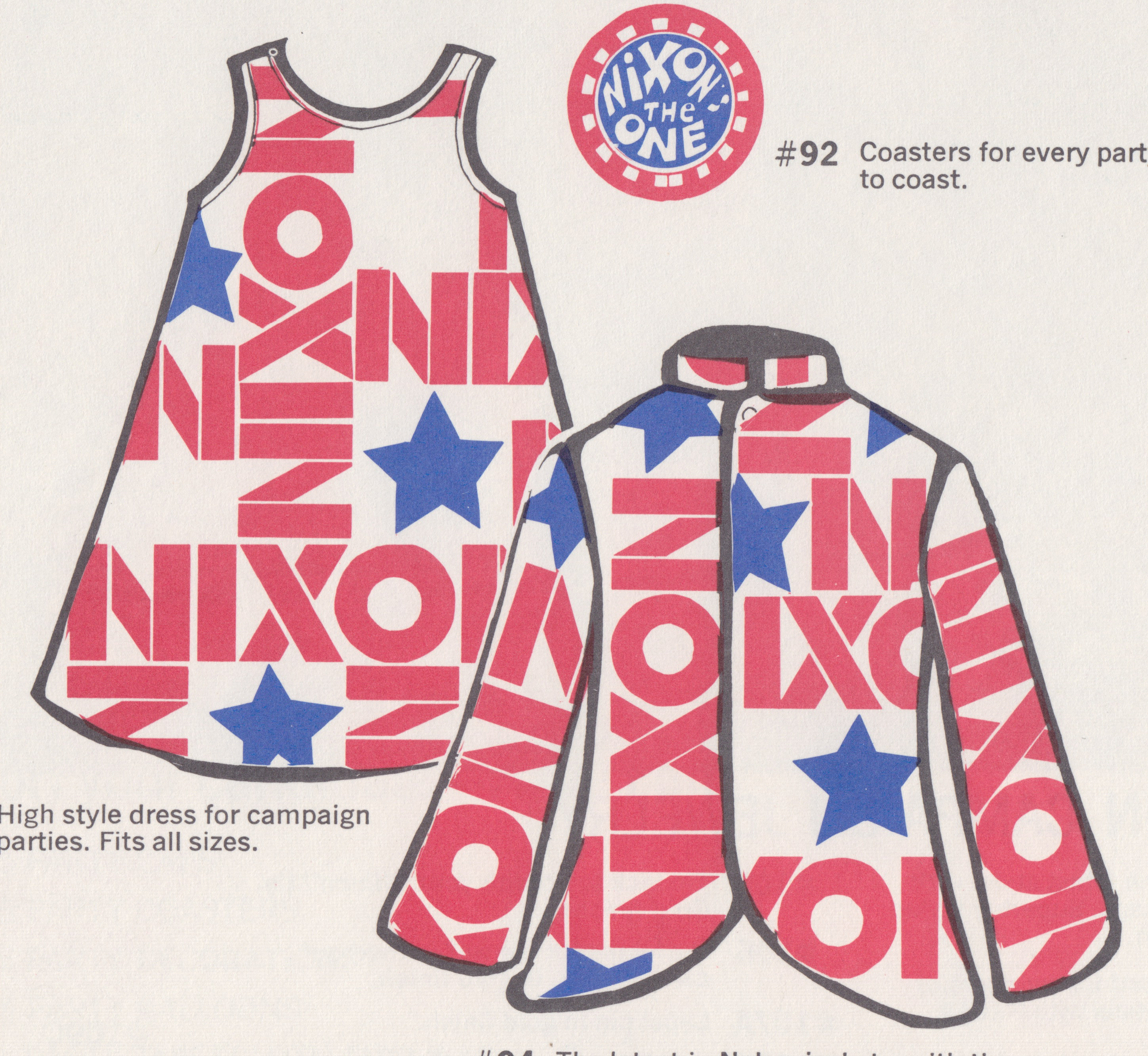 Detail showing a "Nixonette" dress and men's jacket from NixonAgnew Official Campaign Materials Catalog, page 9. Published without copyright notice.